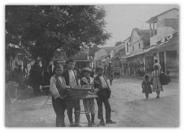 Saint Anthony Square in Veria.